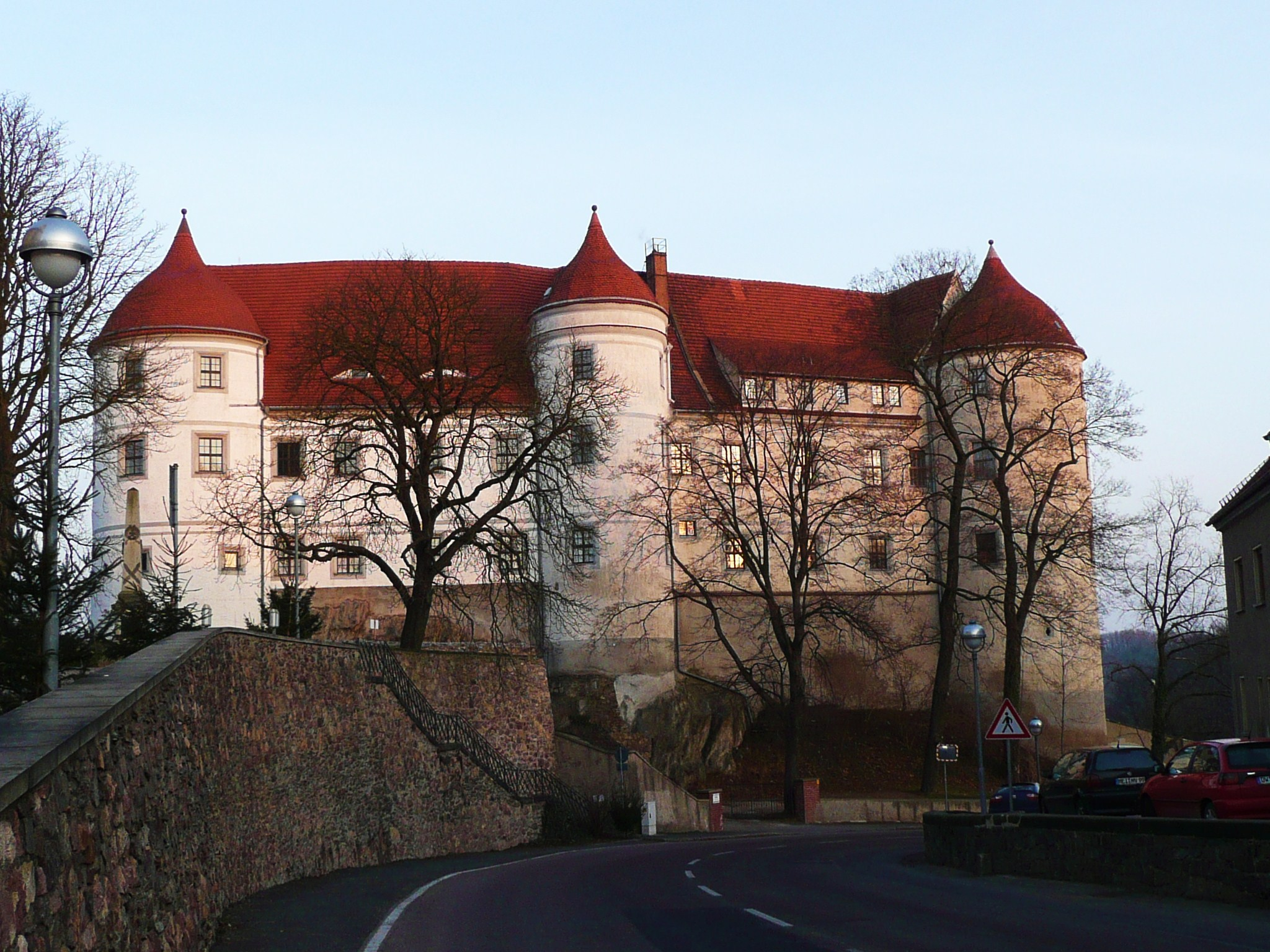 This image shows Nossen castle in Nossen in Saxony, Germany.